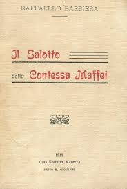 copertina di testo edizioni Madella di oltre 70 anni